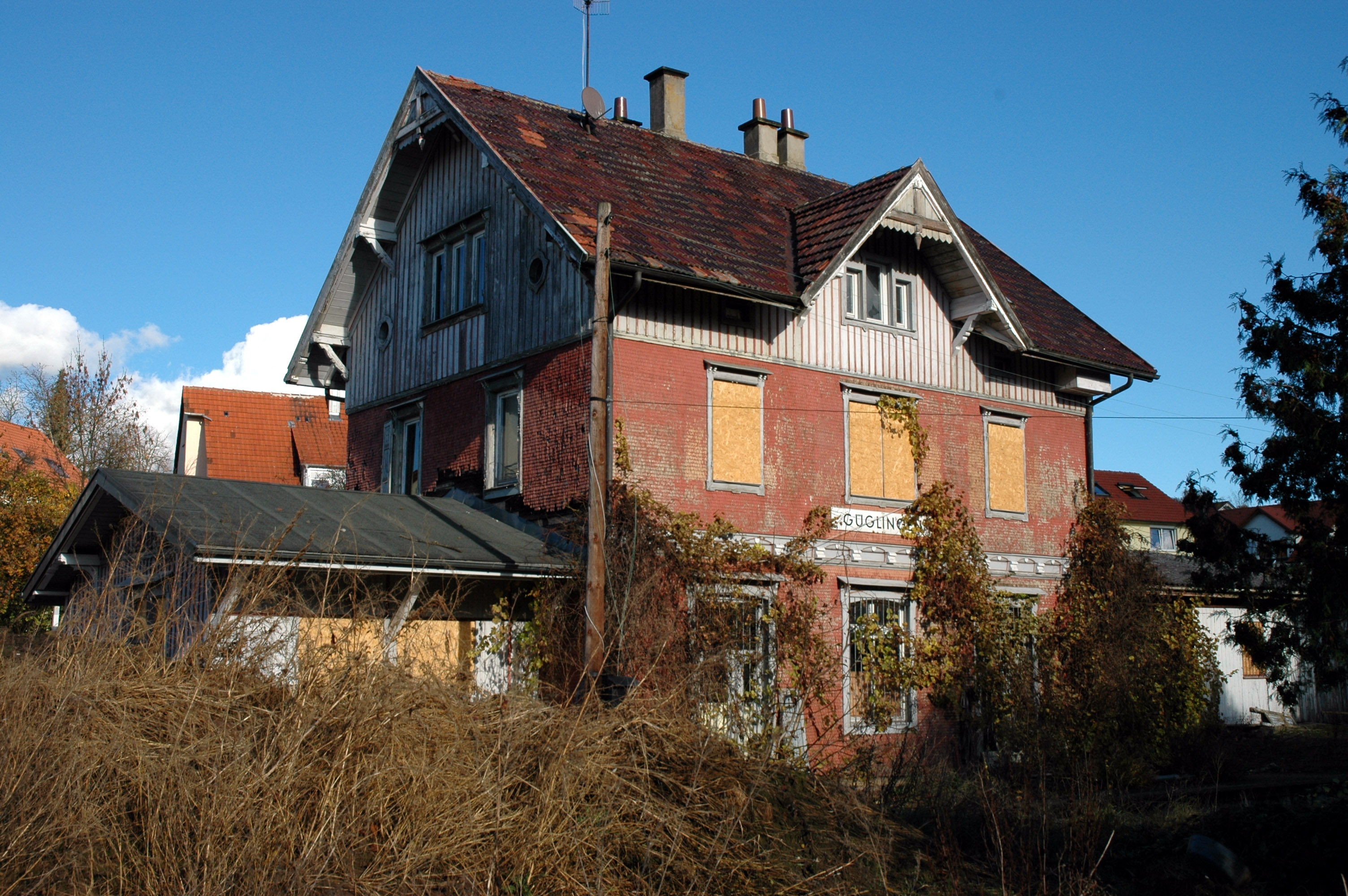 currently abandoned train station of Güglingen